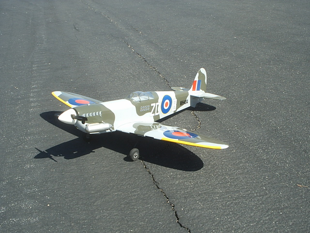 Great Planes Spitfire 25 EP radio controlled model airplane powered by an O.S. Engines 25FX engine owned, flown and photographed by user SayCheese!.